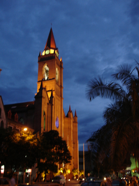 Cathedral of Neiva taken from the park.